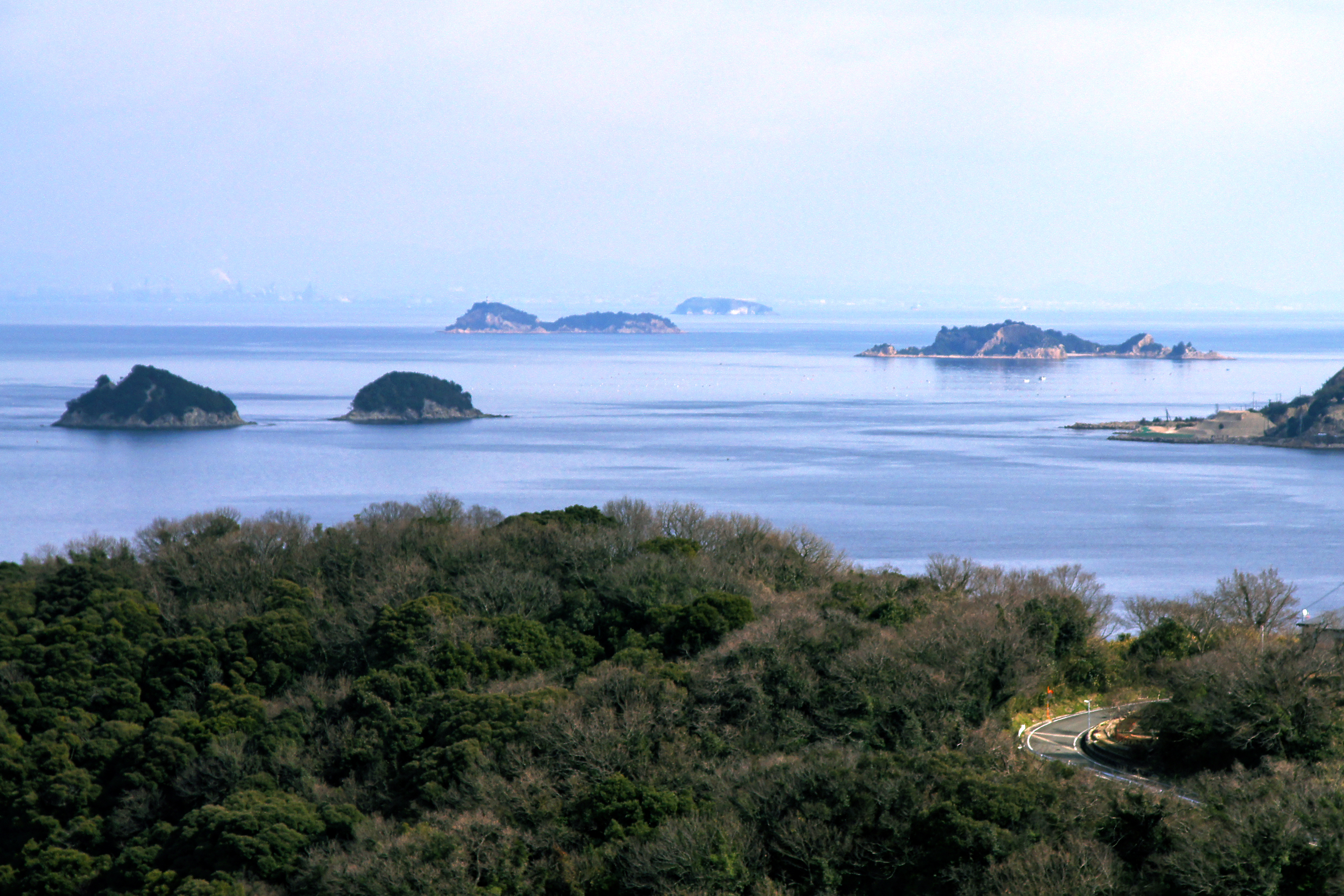 Ieshima Islands view from Ieshima Island in Himeji, Hyogo prefecture, Japan.